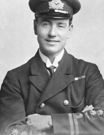 Roderick Stanley (Stan) Dallas, No 1 Squadron, RNAS. Born in Queensland, Dallas sailed to England at the start of the First World War, seeking flight training and after being accepted into the RNAS, was commissioned as a Flight Sub Lieutenant, joining No 1 Squadron in December 1915. During his service on the Western Front, in 1916 and 1917, he proved himself as an exceptional pilot and on 14 June 1917 he was made Commanding Officer of his Squadron. In 1918 after the amalgamation of the two air services to form the Royal Air Force (RAF), he was transferred to 40 Squadron RAF and held the rank of Major. While on a reconnaissance operation, Dallas was struck with 3 bullets to his leg, after his safe return to base he was awarded the Distinguished Service Order (DSO) having already been awarded the Distinguished Service Cross (DSC) and Bar and the French award, the Croix de Guerre and Palm. Major Dallas was killed in action on 1 June 1918, aged 26, while engaged in combat with Fokker Triplanes over France and is buried at Pérnes British Cemetery, Pas de Calais, France. Major Dallas is officially credited with shooting down thirty nine enemy aircraft.